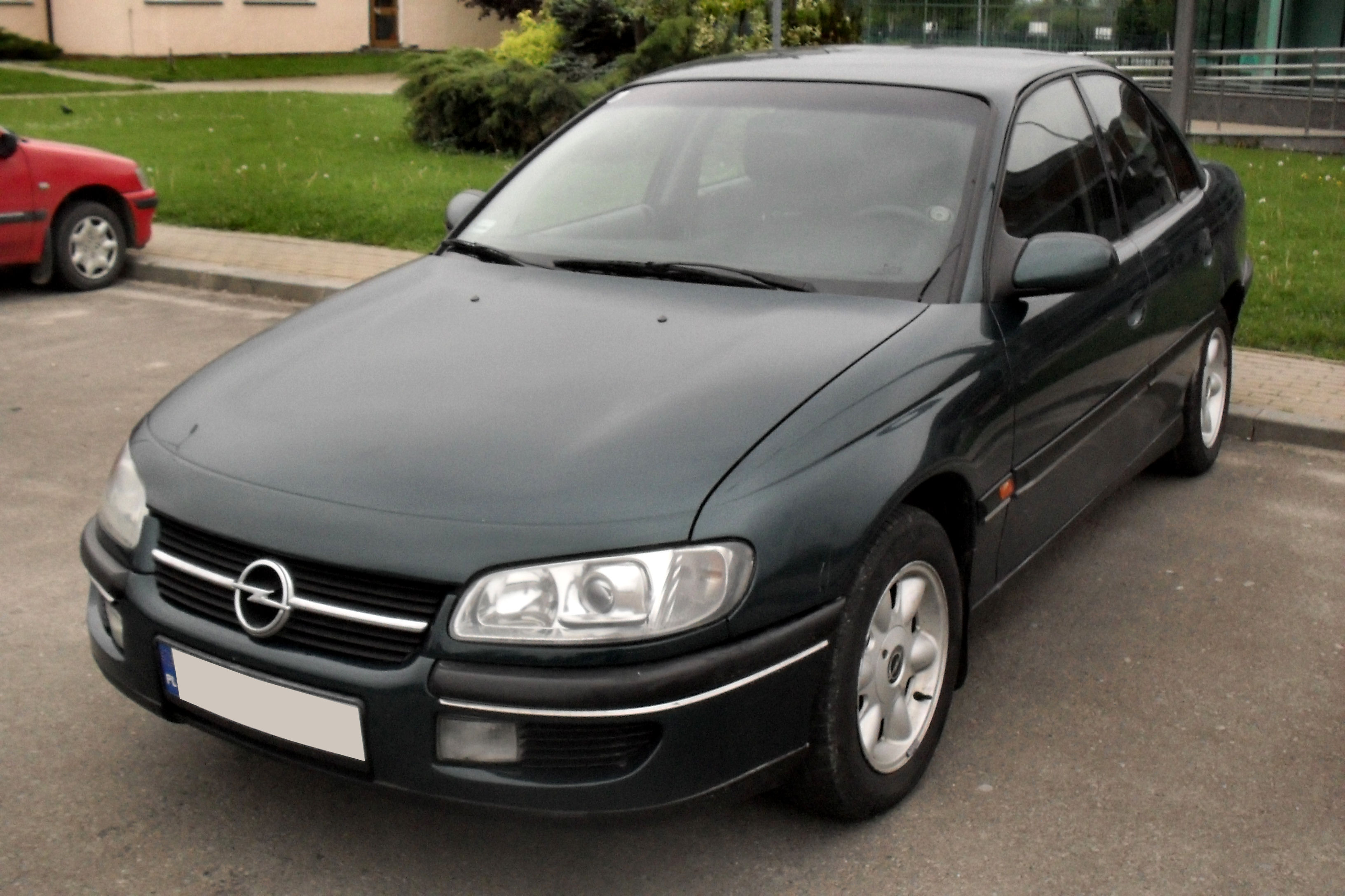 Opel Omega B seen in Jasło, Poland.